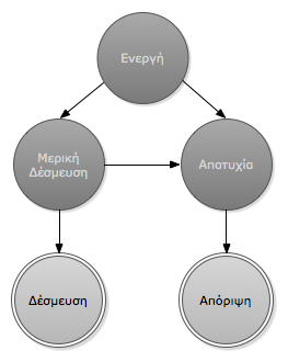 Database Transactions States